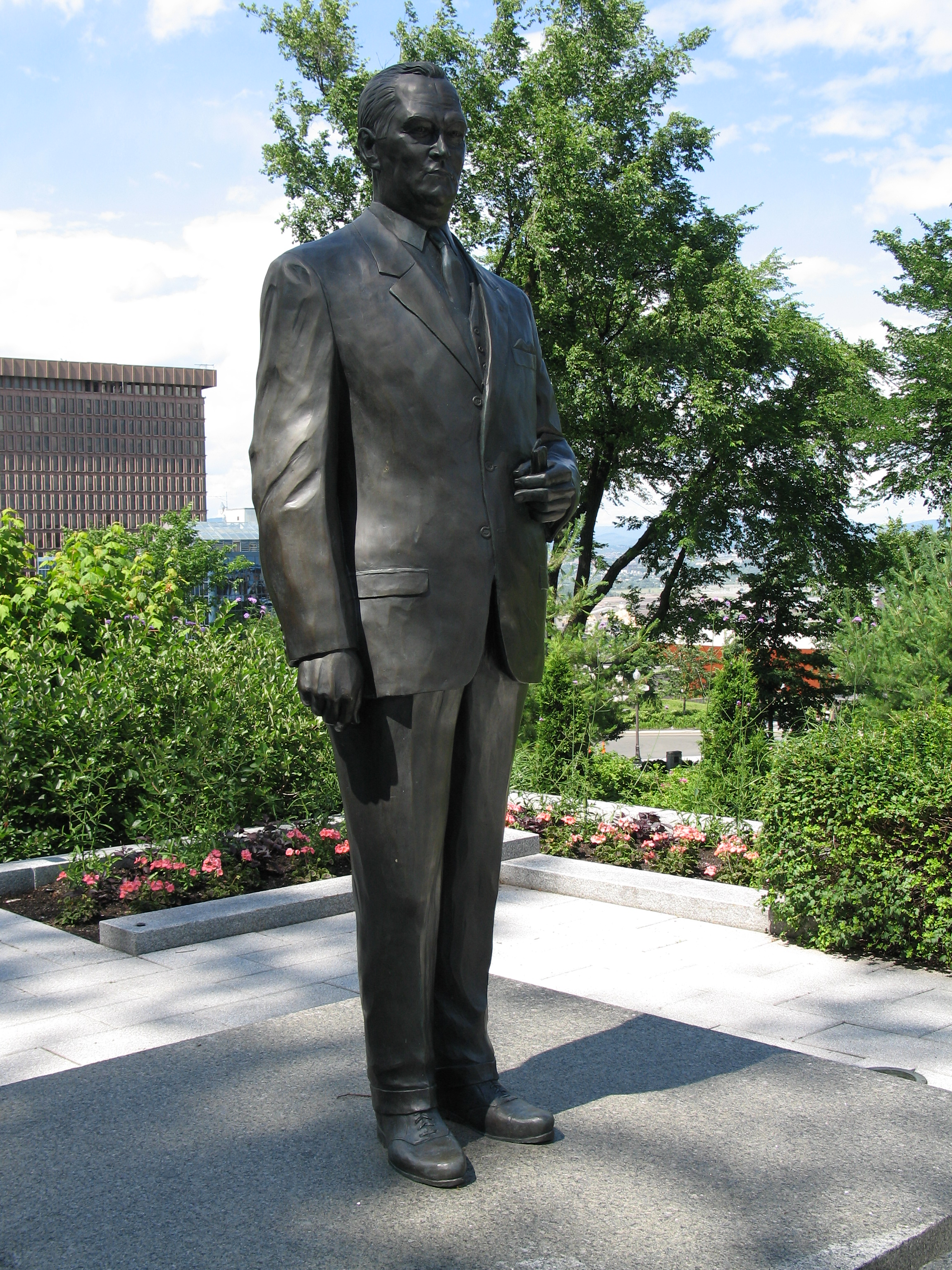 Statue of Jean Lesage (1912-1980) in front of the National Assembly in Quebec City.